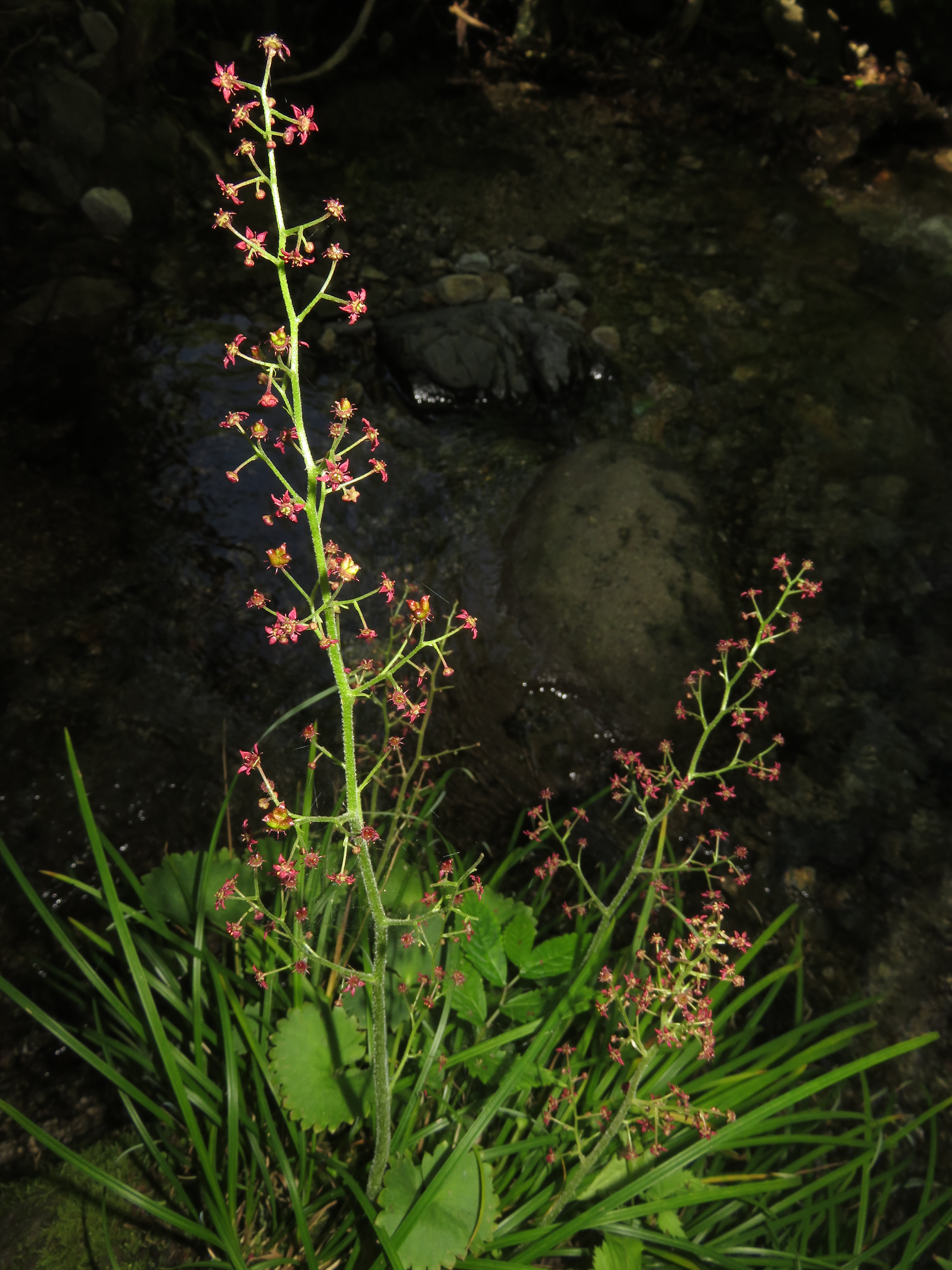 Micranthes fusca var. kikubuki, Mount Tashiro, Fukushima pref., Japan